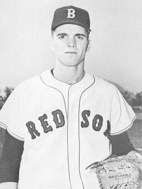 Professional baseball player Tony Conigliaro